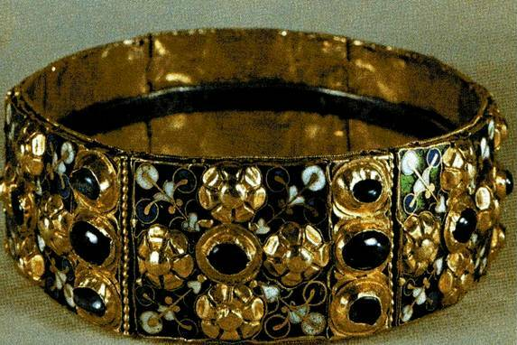 Iron Crown of Lombardy, Monza